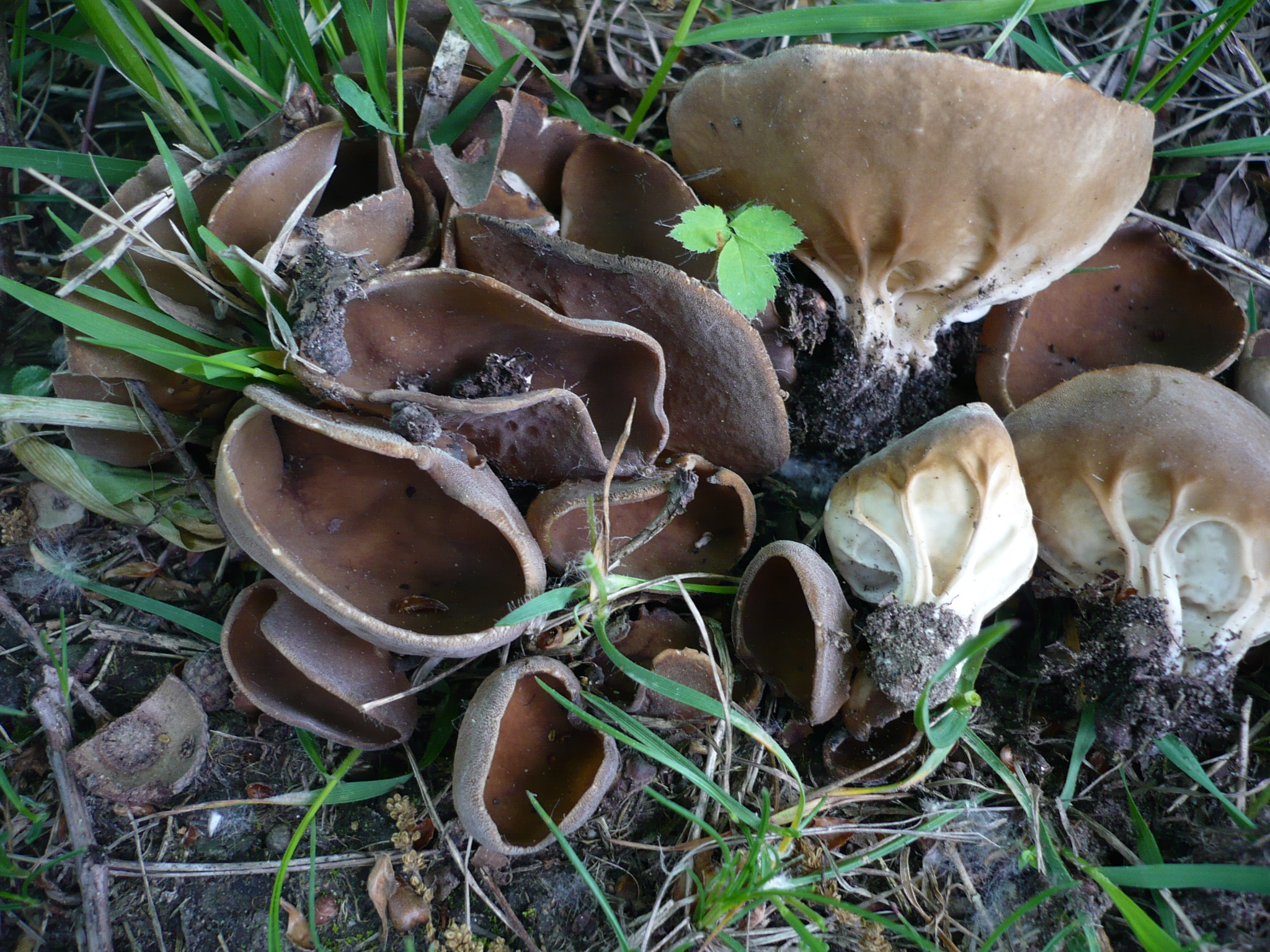 Fruit bodies of the fungus Helvella acetabulum (L.) Quél. Specimens photographed in obere Lobau, Vienna, Austria.